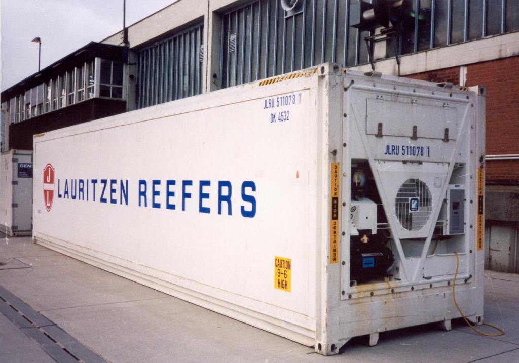 Integral reefer container